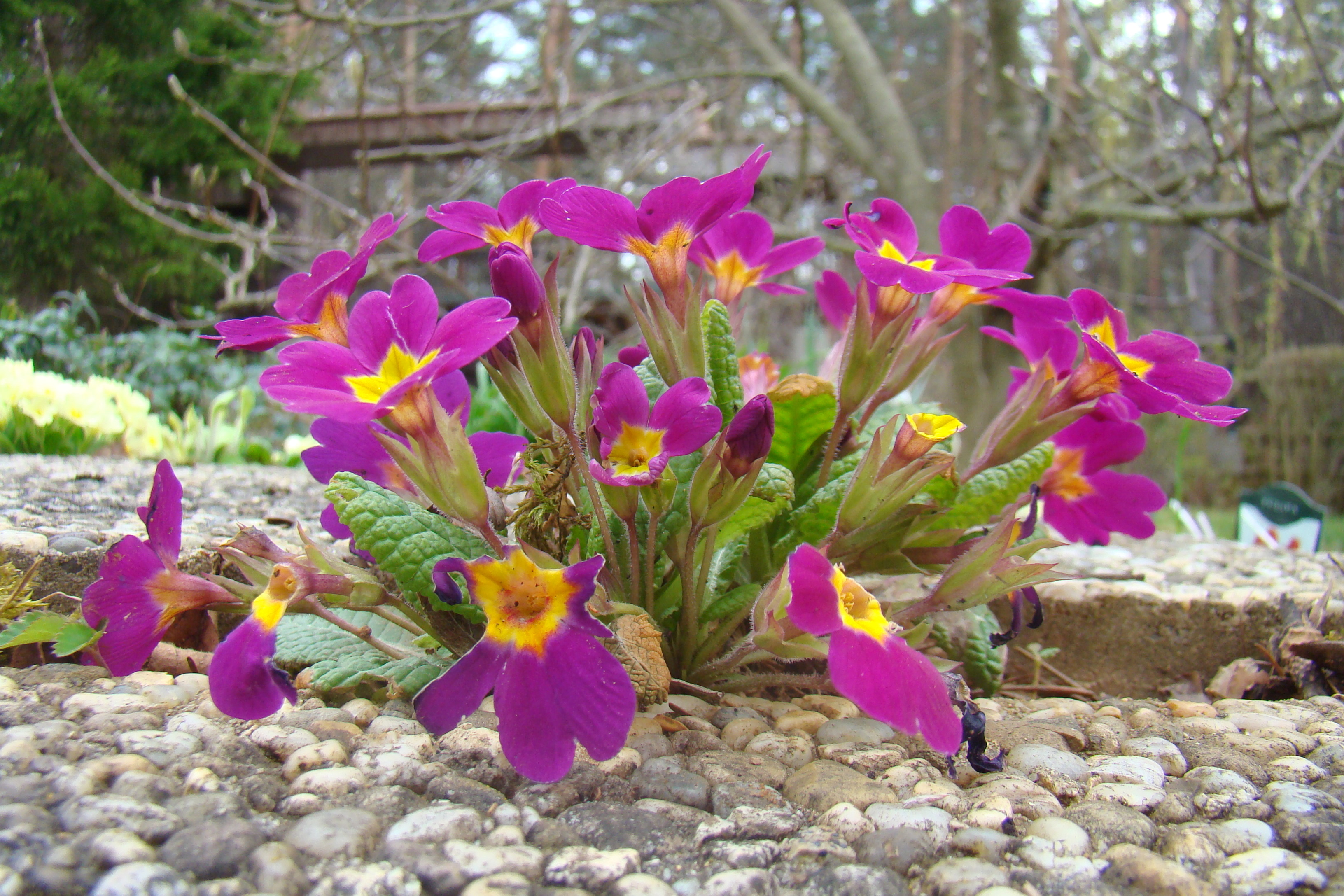 This image shows Primula vulgaris.